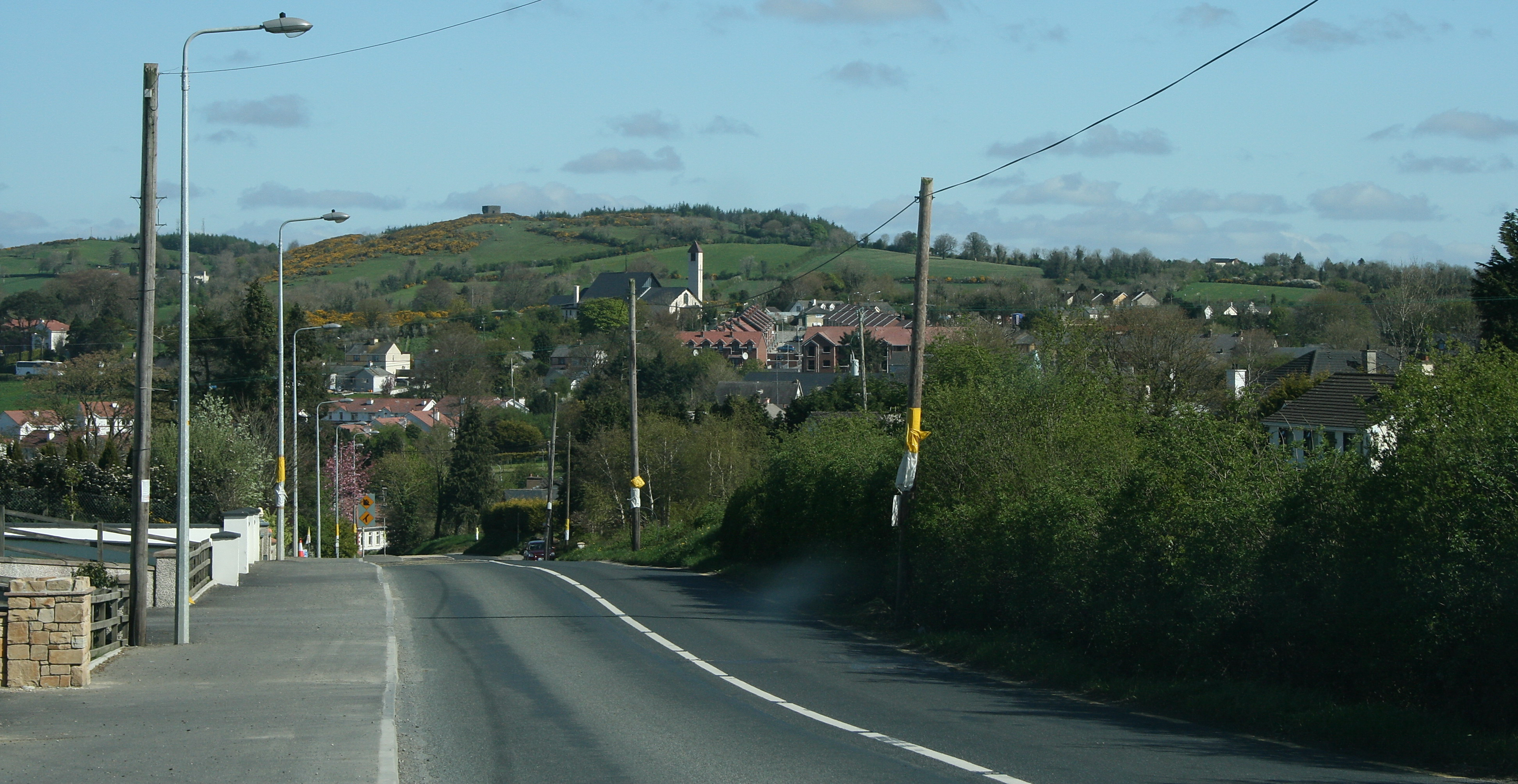 Bellananagh, County Cavan, near to Ballinagh, Drumcarban and Bellville, Cavan, Ireland. Approaching Bellananagh from the south on the N55